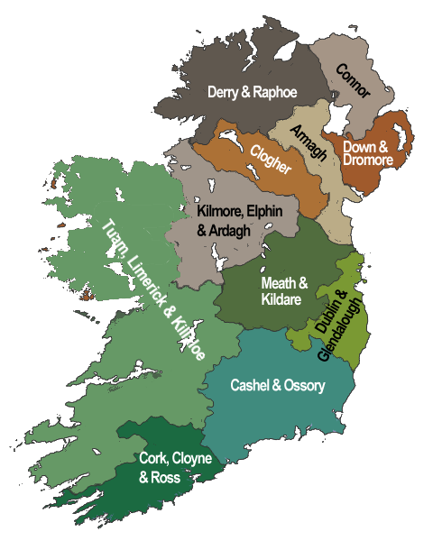 Outline map of the Dioceses of the Church of Ireland (Episcopal) Source of information: Church of Ireland website - dioceses page